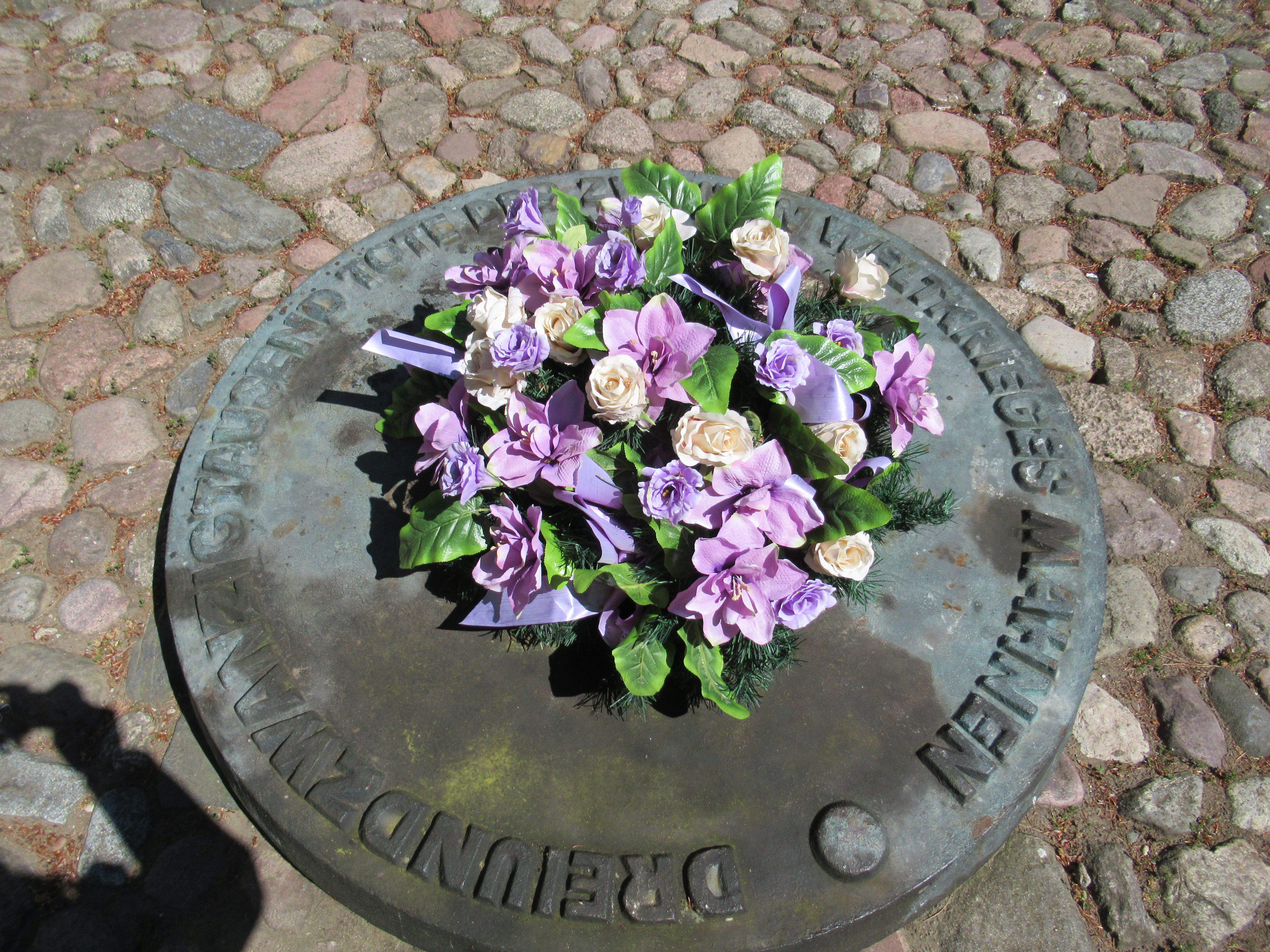 Golm (Usedom) Memory Table to 23000 Victims of World War II